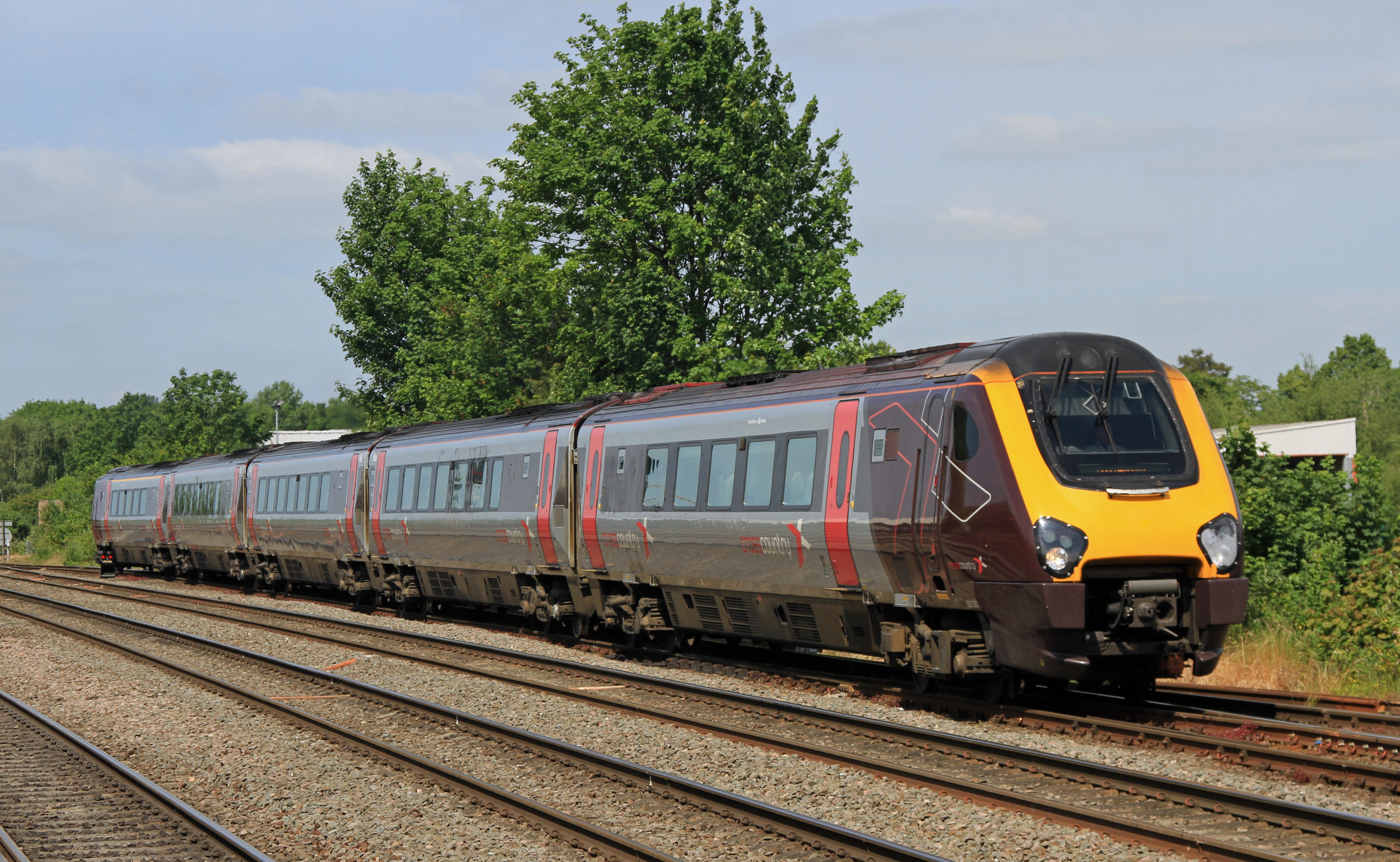 221-127 Cross Country arrives at Leamington Spa with a Manchester Piccadilly - Bournemouth service ( 1010) 18-06-2015